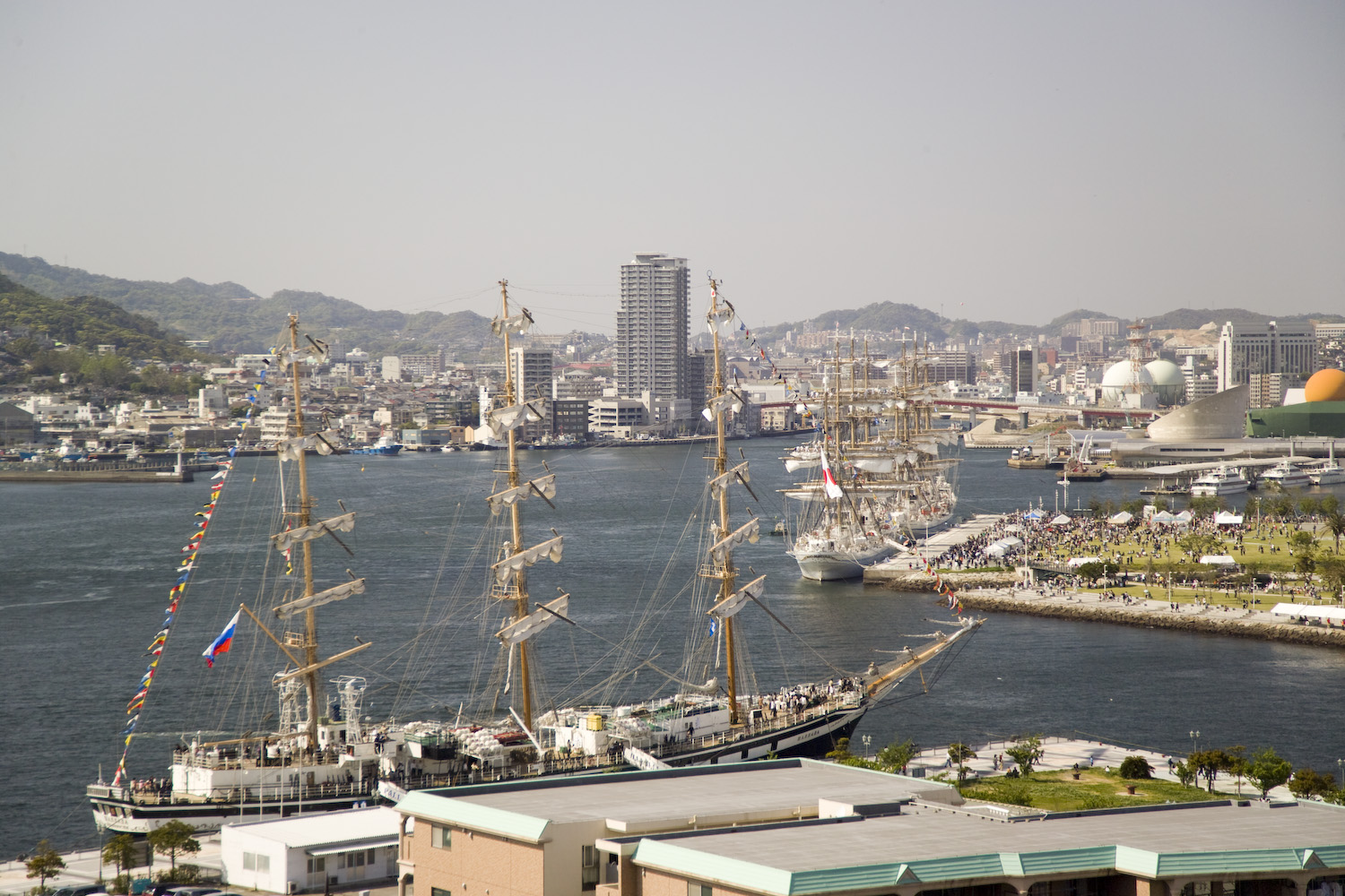 The Port of Nagasaki seen from Glover Garden.